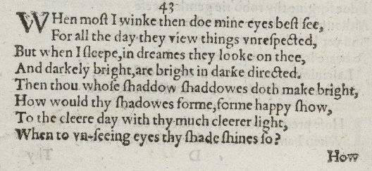 Sonnet 43 in the 1609 Quarto of Shakespeare's sonnets